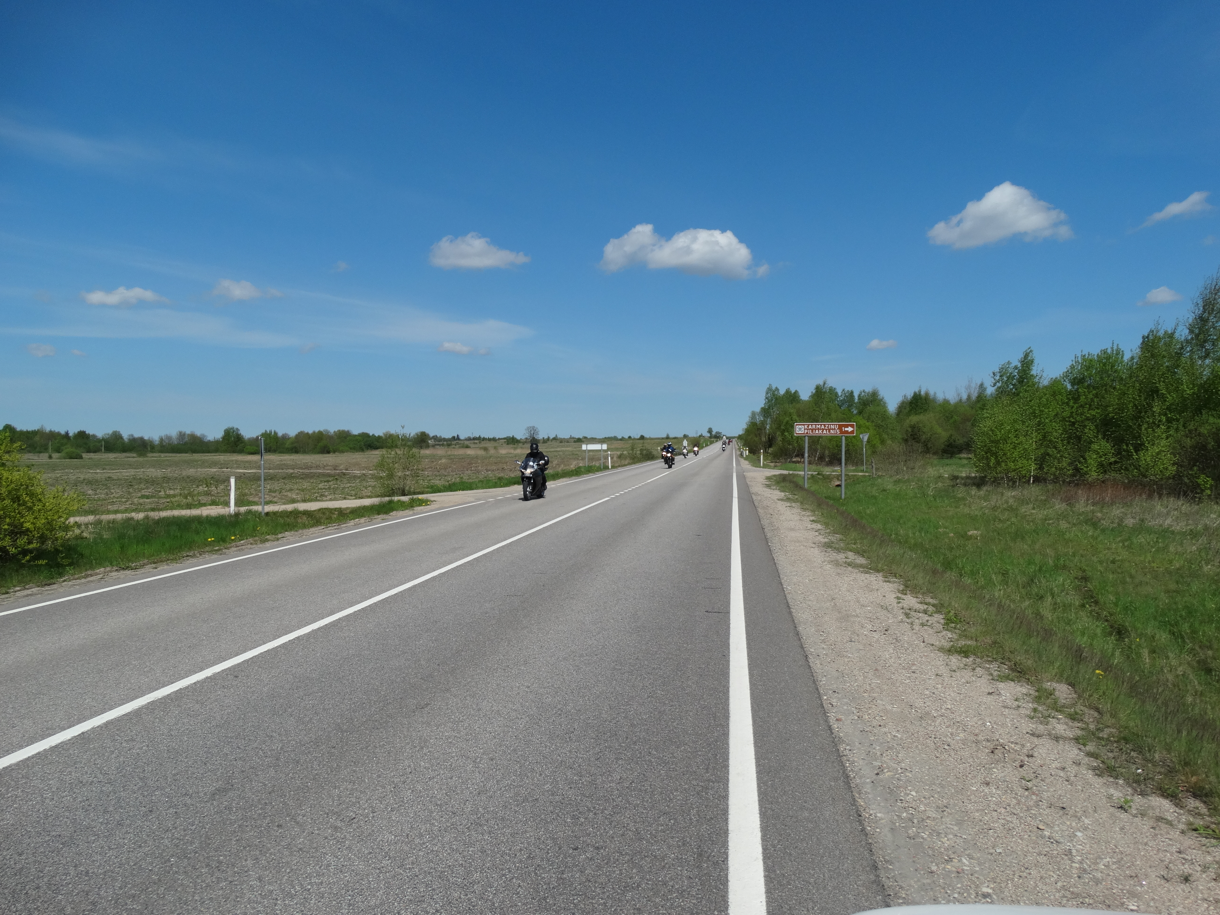 Road KK108, Vilnius District, Lithuania